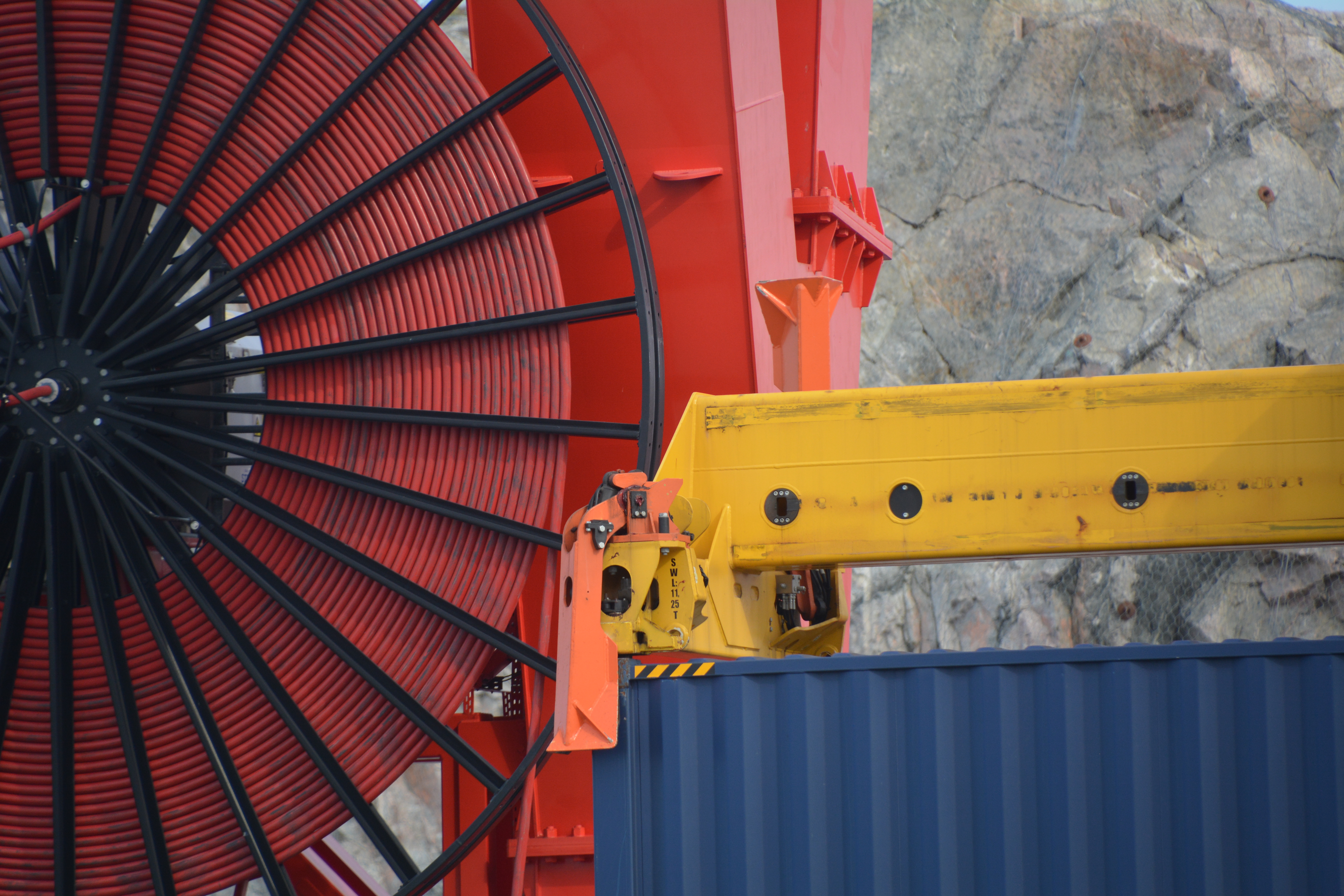 Container grip